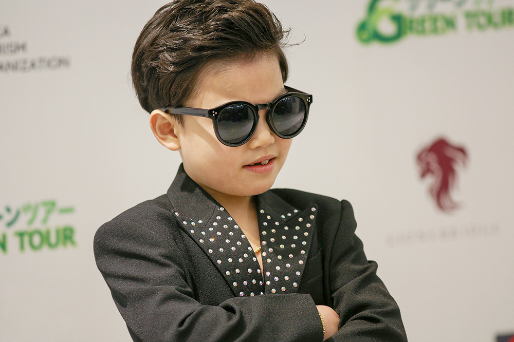 Hwang Minwoo, known as Little Psy